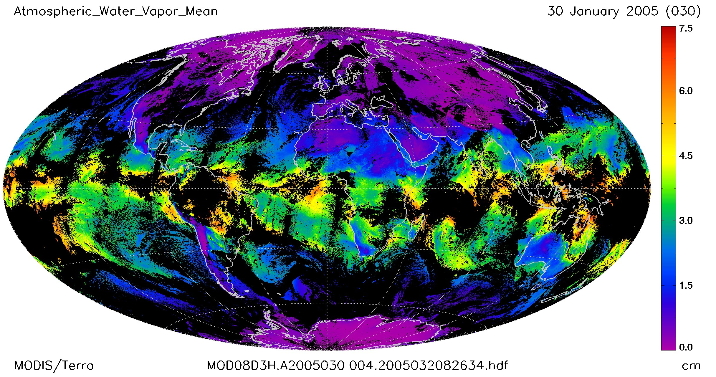 Global mean atmospheric water vapor. Derived from MODIS/Terra MOD07_L2 (Atmosphere Profile Product).